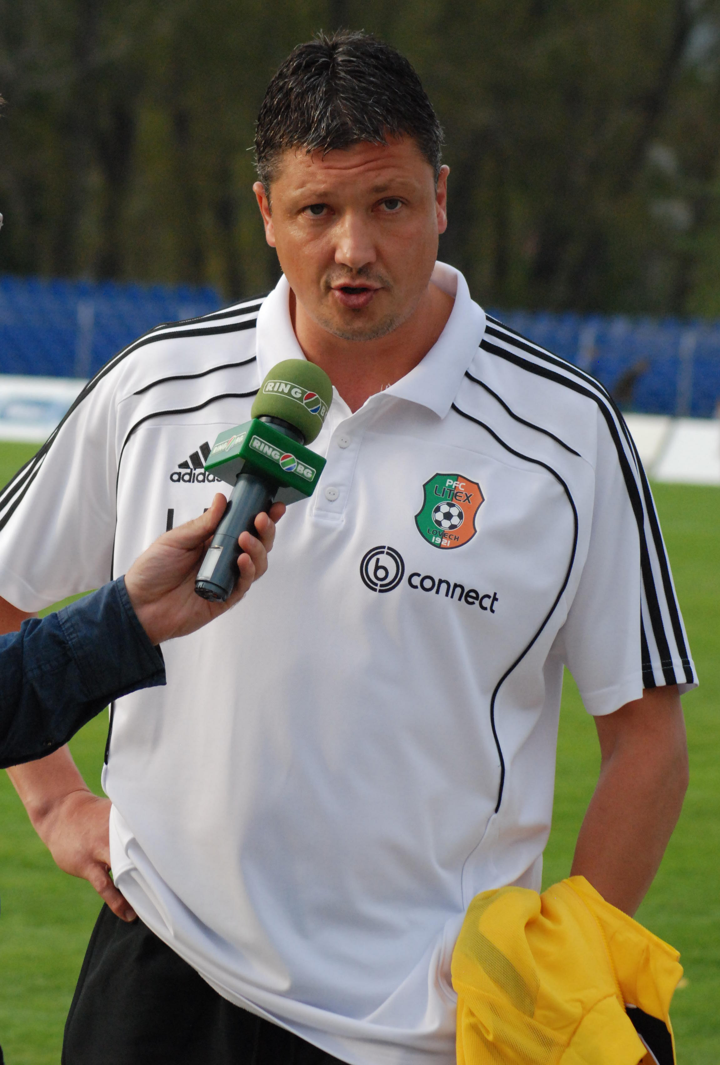 Lyuboslav Penev